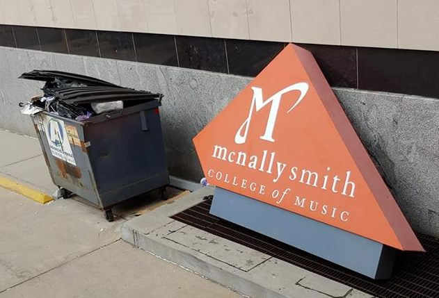 After the school's bankruptcy, no one wanted the school's masthead for any purpose.